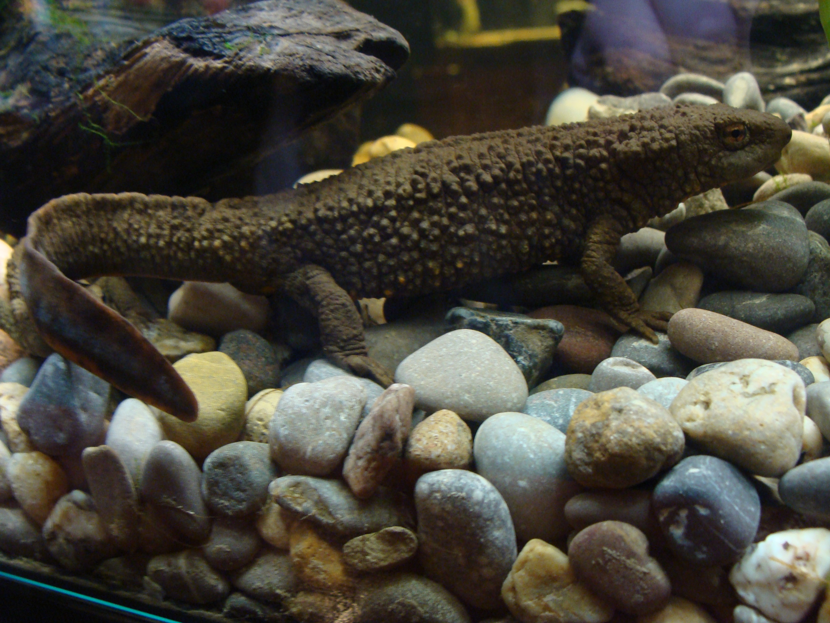 Paramesotriton hongkongensis (Hong Kong Newt) in the House of the Sciences, in Corunna, Galicia, Spain